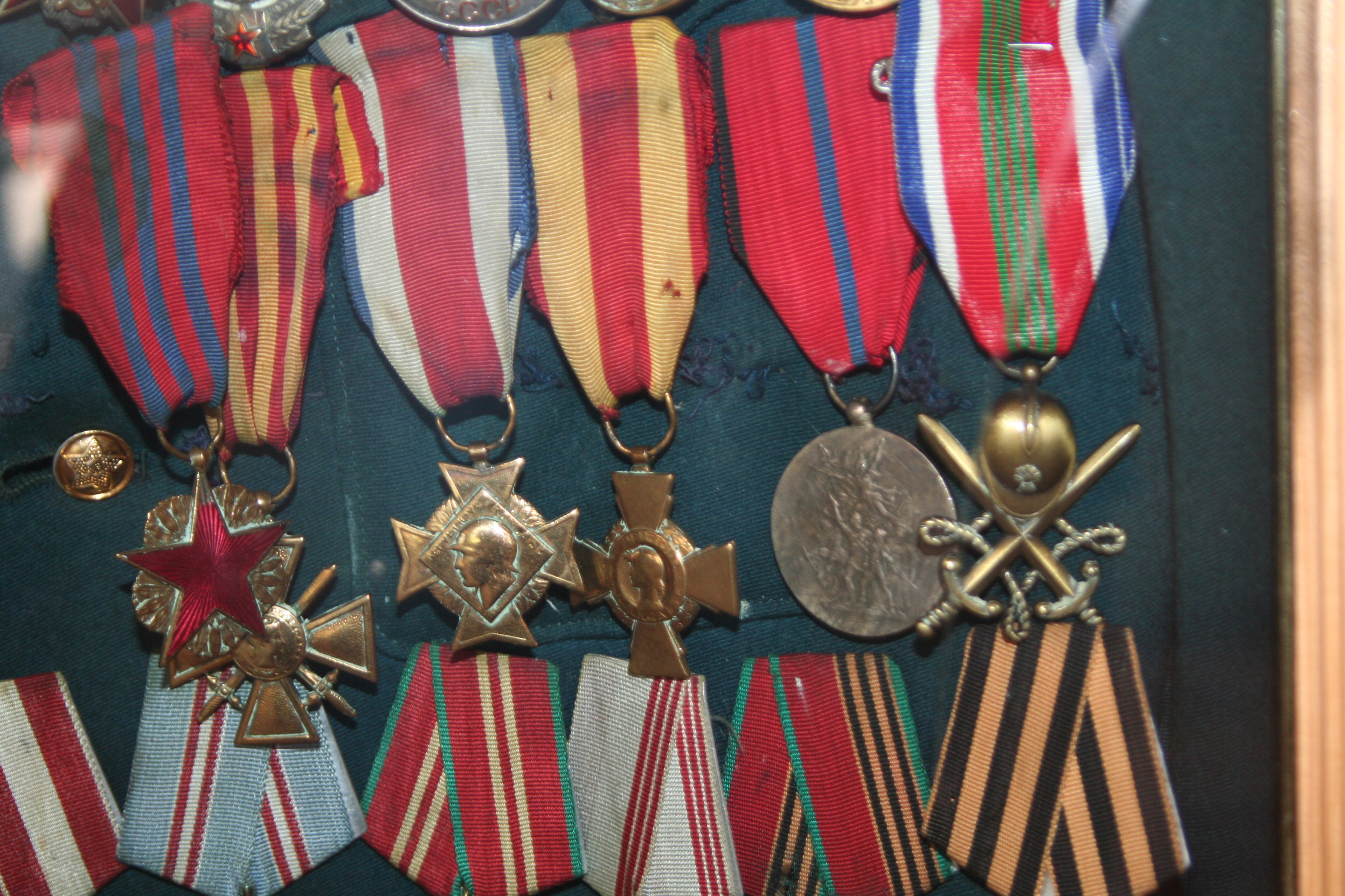 French medals on the military uniform of Ahmadiyya Jabrayilov